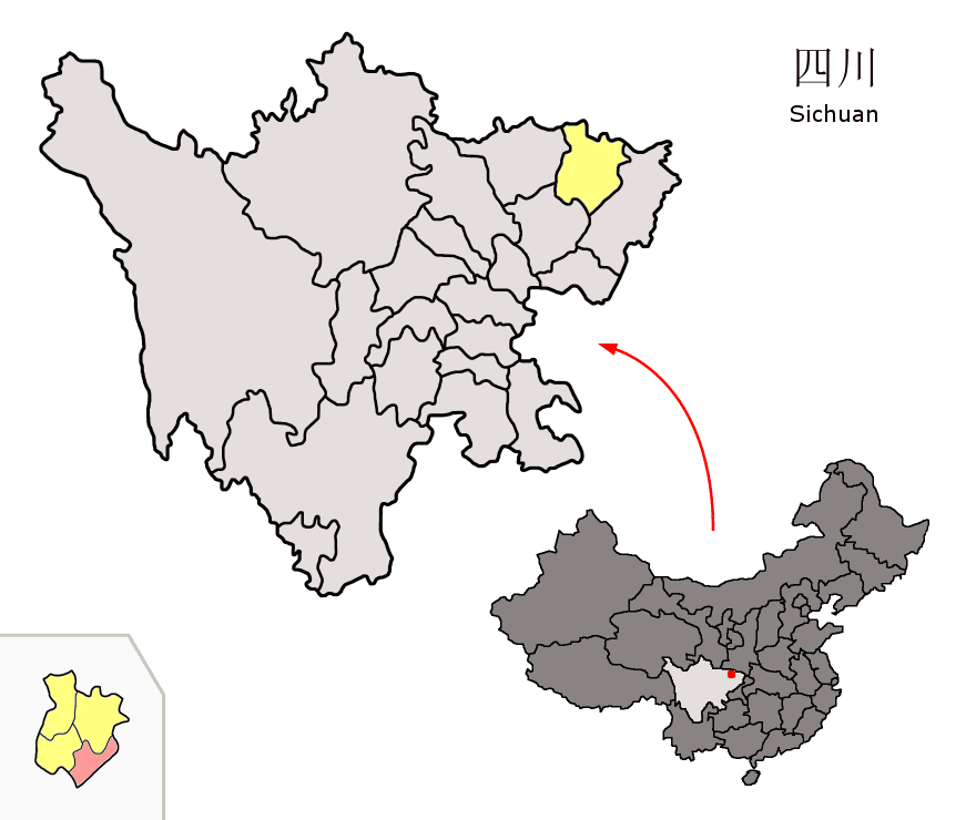 Location of Pingchang County (pink) and Bazhong Prefecture (yellow) within Sichuan province of China Map drawn in october 2007 using various sources, mainly : Sichuan province administrative regions GIS data: 1:1M, County level, 1990 Sichuan Counties map from